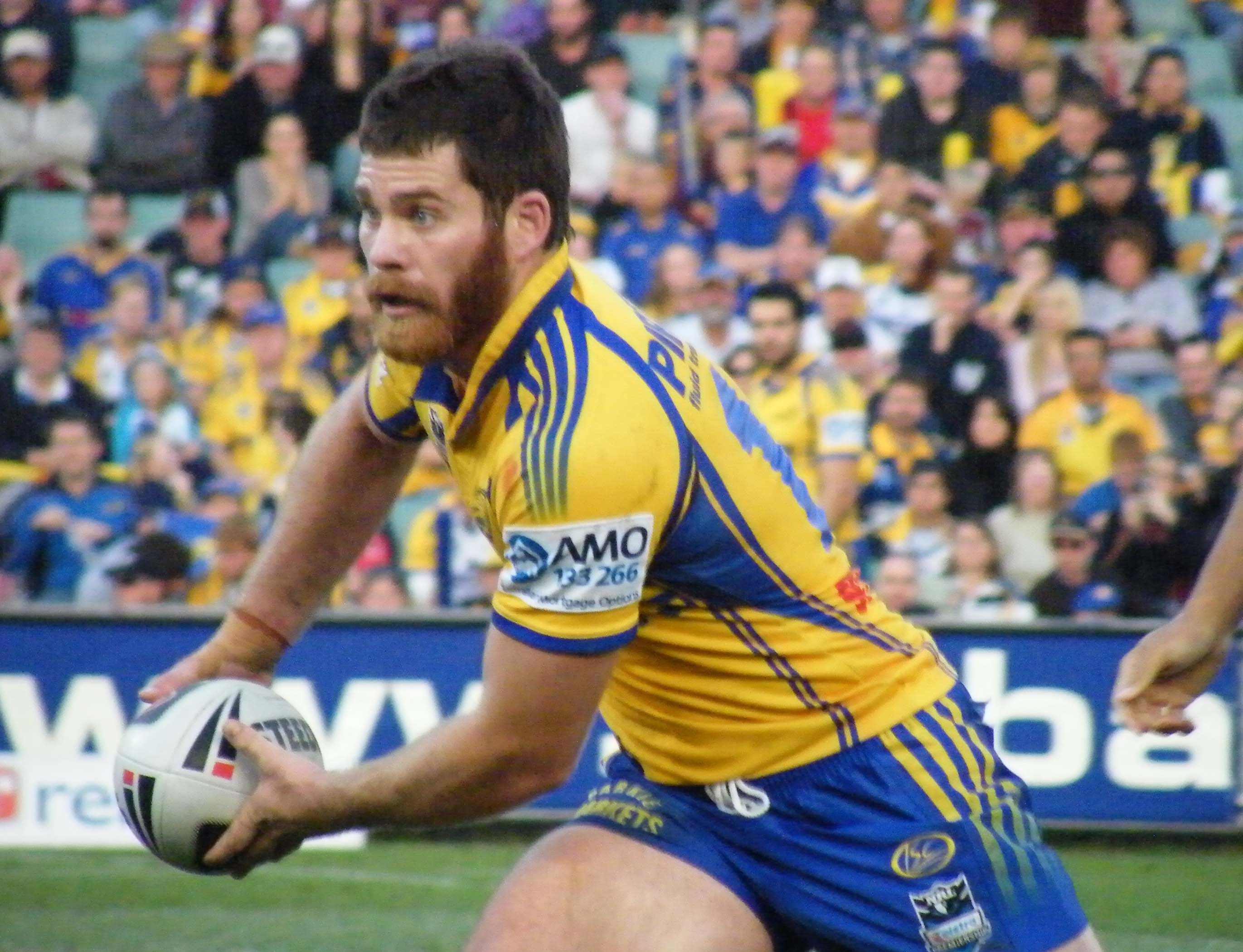 Kevin Kingston of the Parramatta eels